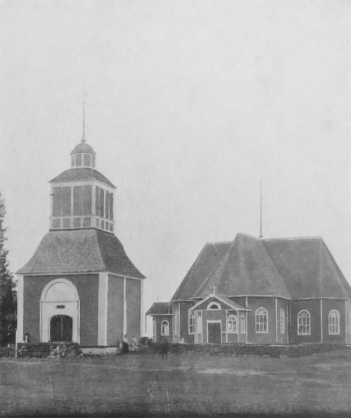 The Church and the Belfry of Haukipudas before changes made in 1902. The church is designed by Matti Honka and built by Jaakko Suonperä and it was completed in the year 1762. The belfry is designed and built by Heikki Väänänen in 1751.